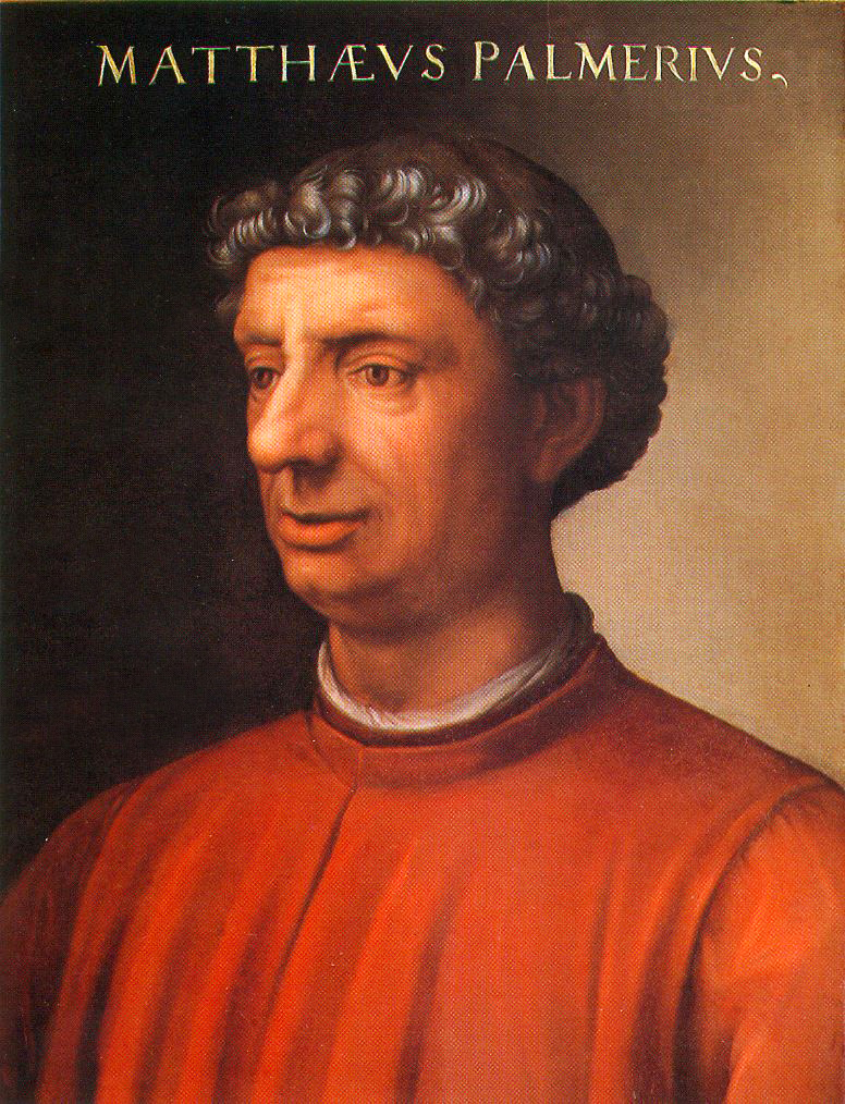 Portrait of Matteo Palmieri, Cristofano dell'Altissimo. After 1552. Oil on wood, 60 x 40 cm. Inv 1890, no. 164. Giovio Series